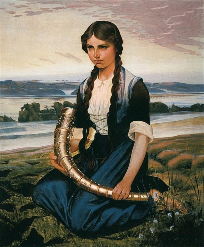 oil on canvasmedium QS:P186,Q296955;P186,Q12321255,P518,Q861259